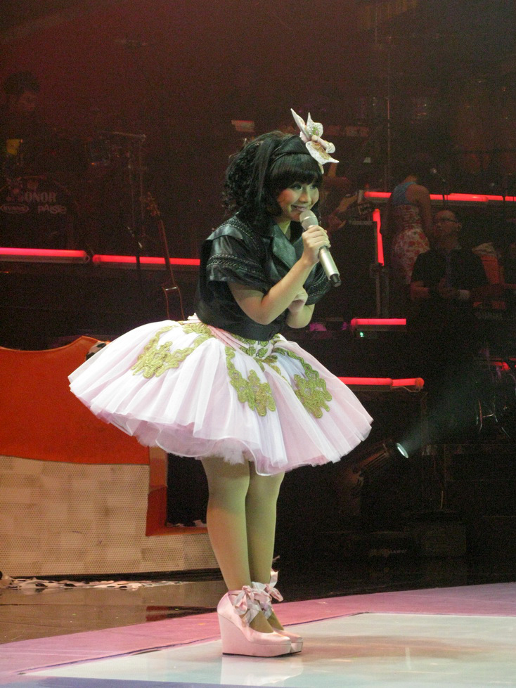 Indonesian singer Gita Gutawa during the Kotak Musik Gita Gutawa